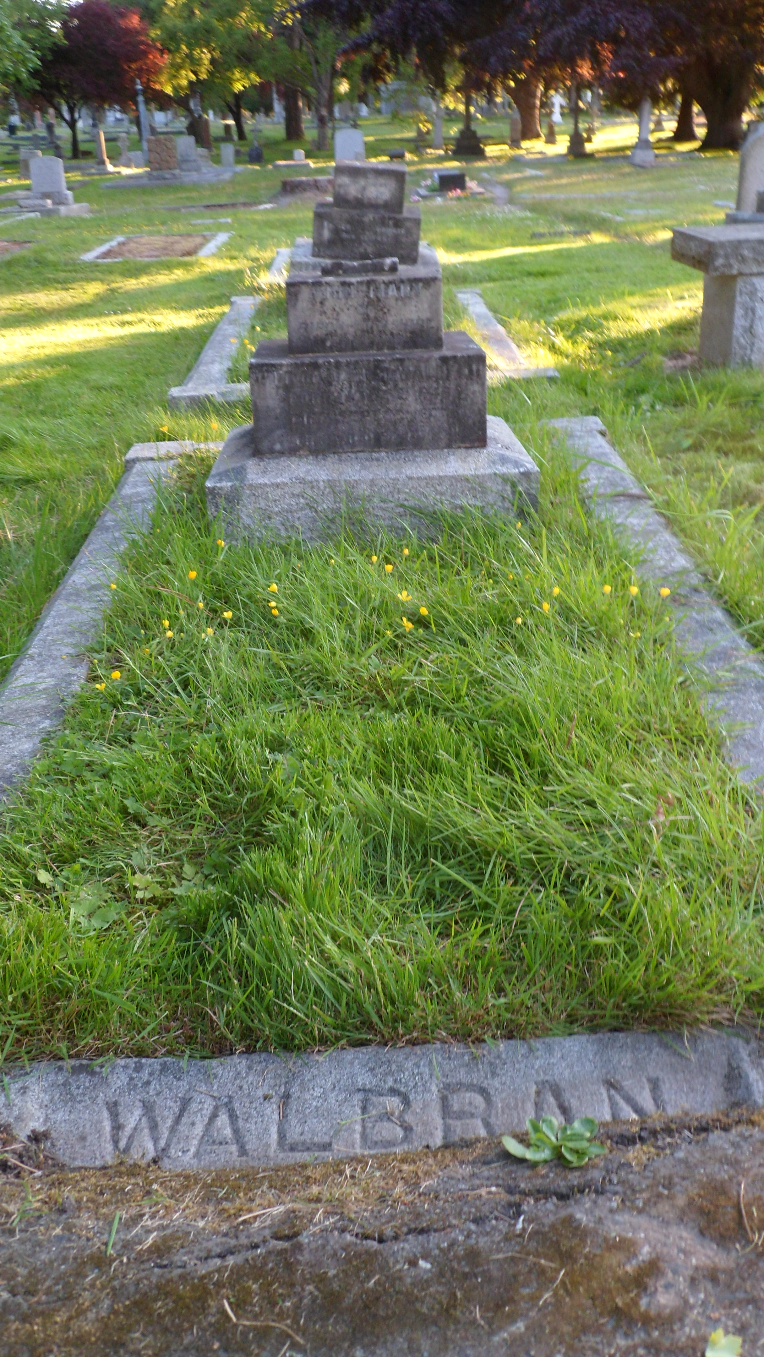 Grave of John Thomas Walbran and Anne Mary Walbran, married 1871-05-09. The grave is in Ross Bay Cemetery at Block T, Plot 84W46, meaning 84 west of road 46. The easternmost gate off Fairfield Road is convenient. The front face of the plinth is inscribed "ANNE MARY OF RIPON, YORKSHIRE ENG. WIFE OF JOHN T. WALBRAN BORN MARCH 23RD 1848 DIED MARCH 31ST 1913 THY WILL BE DONE". The side of the plinth is inscribed "CAPT. JOHN T. WALBRAN OF RIPON YORKSHIRE ENG. BORN MARCH 23RD 1848 DIED MARCH 31ST 1913 AT ANCHOR IN THE HAVEN OF REST".